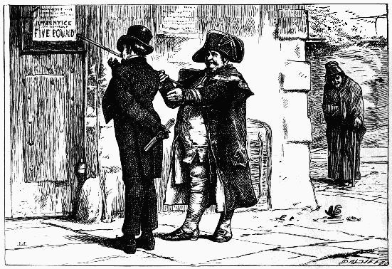 The Beadle spruiks the benefits of apprenticing a Workhouse boy to Mr Sowerberry. (Image - Project Gutenberg)